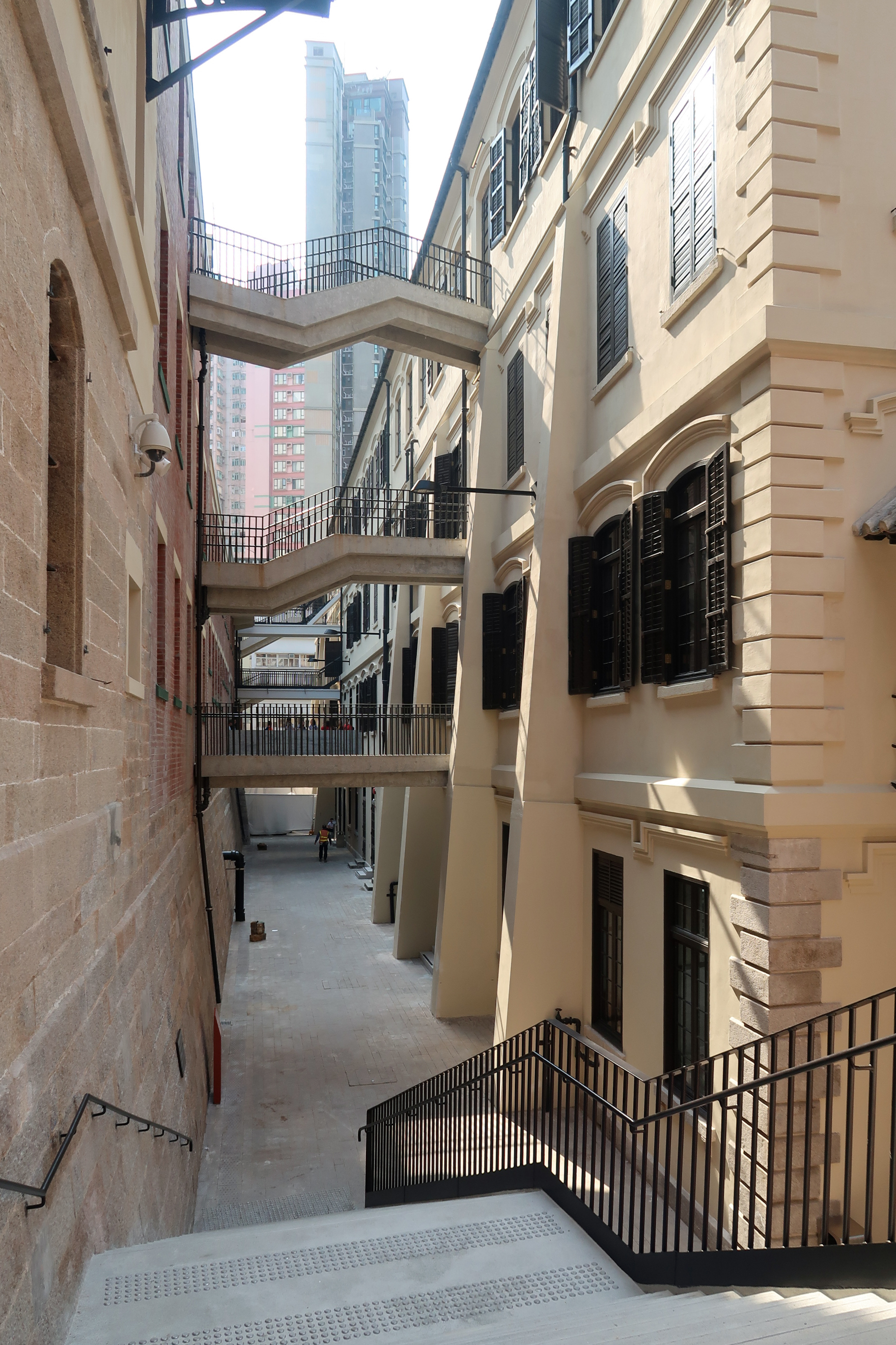 Tai Kwun Block 03 to Block 13 linkage